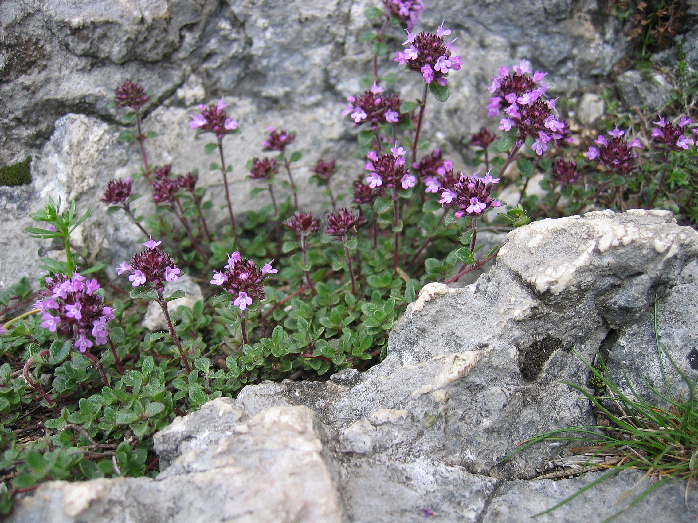 Thymus praecox subsp. polytrichus, Traunstein, Upper Austria, Austria